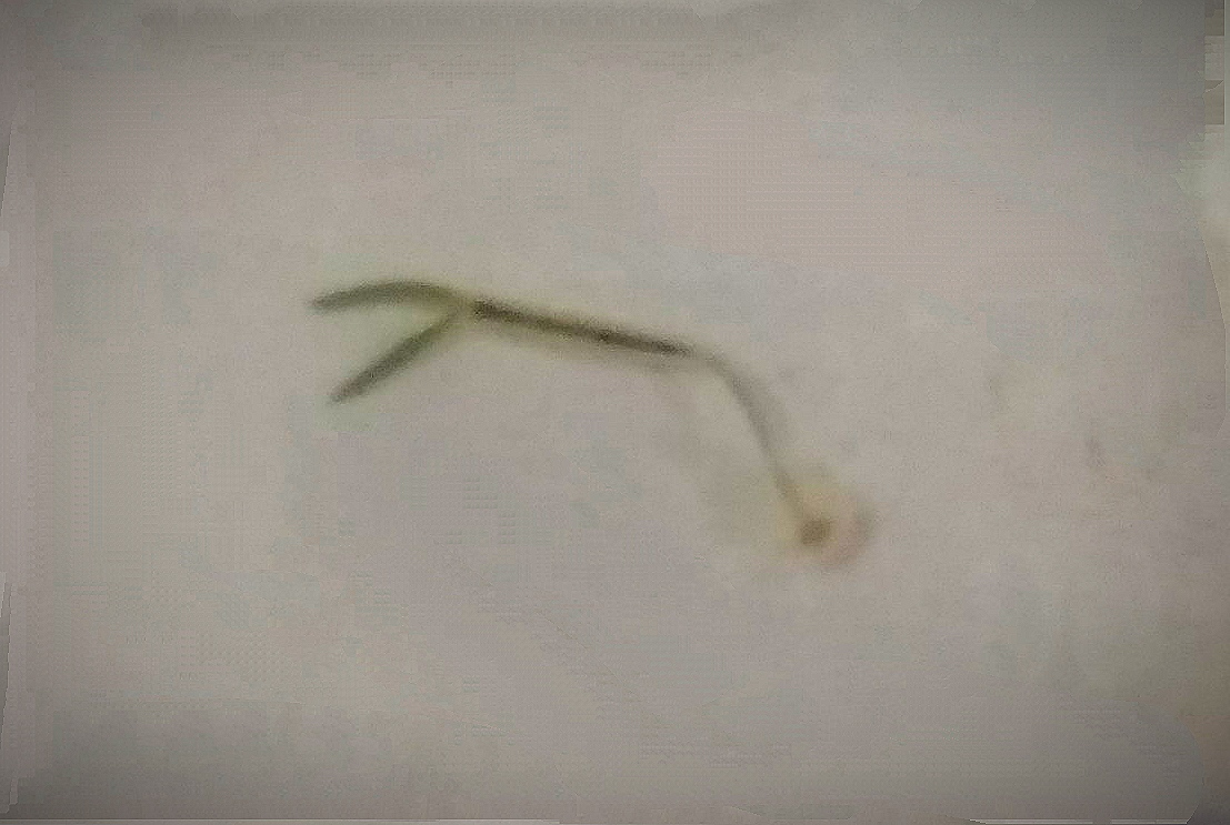 This is the anchor worm which appeared on my new gold fish after 4 days from the date I introduced to my aquarium